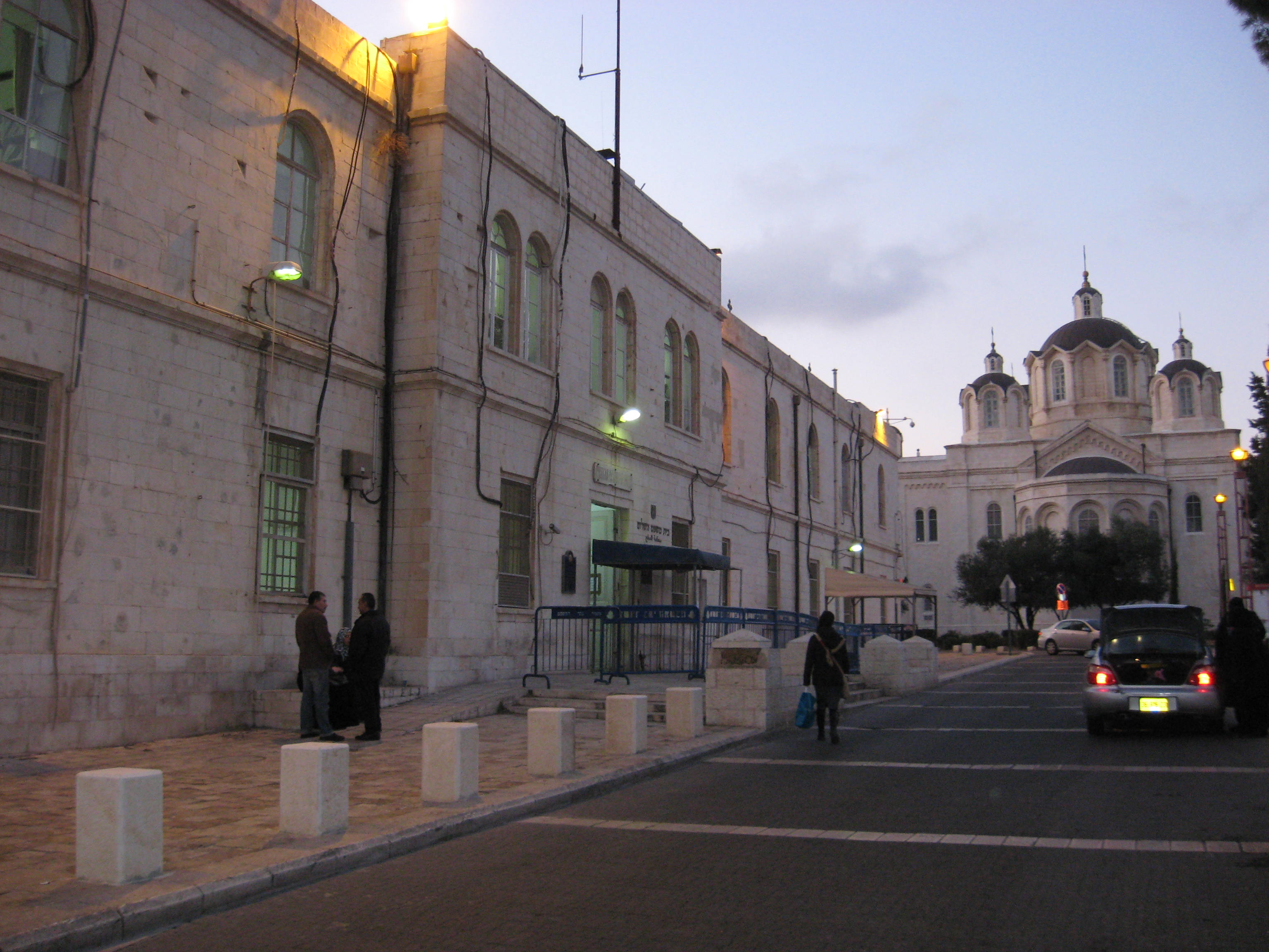 Russian Mission and the Magistrate Court building, Russian Compound, Jerusalem. During the British Mandate the building hosted the Mandatory Supreme Court and other courts. This was the seat of the Supreme Court of Israel in 1948-1992.